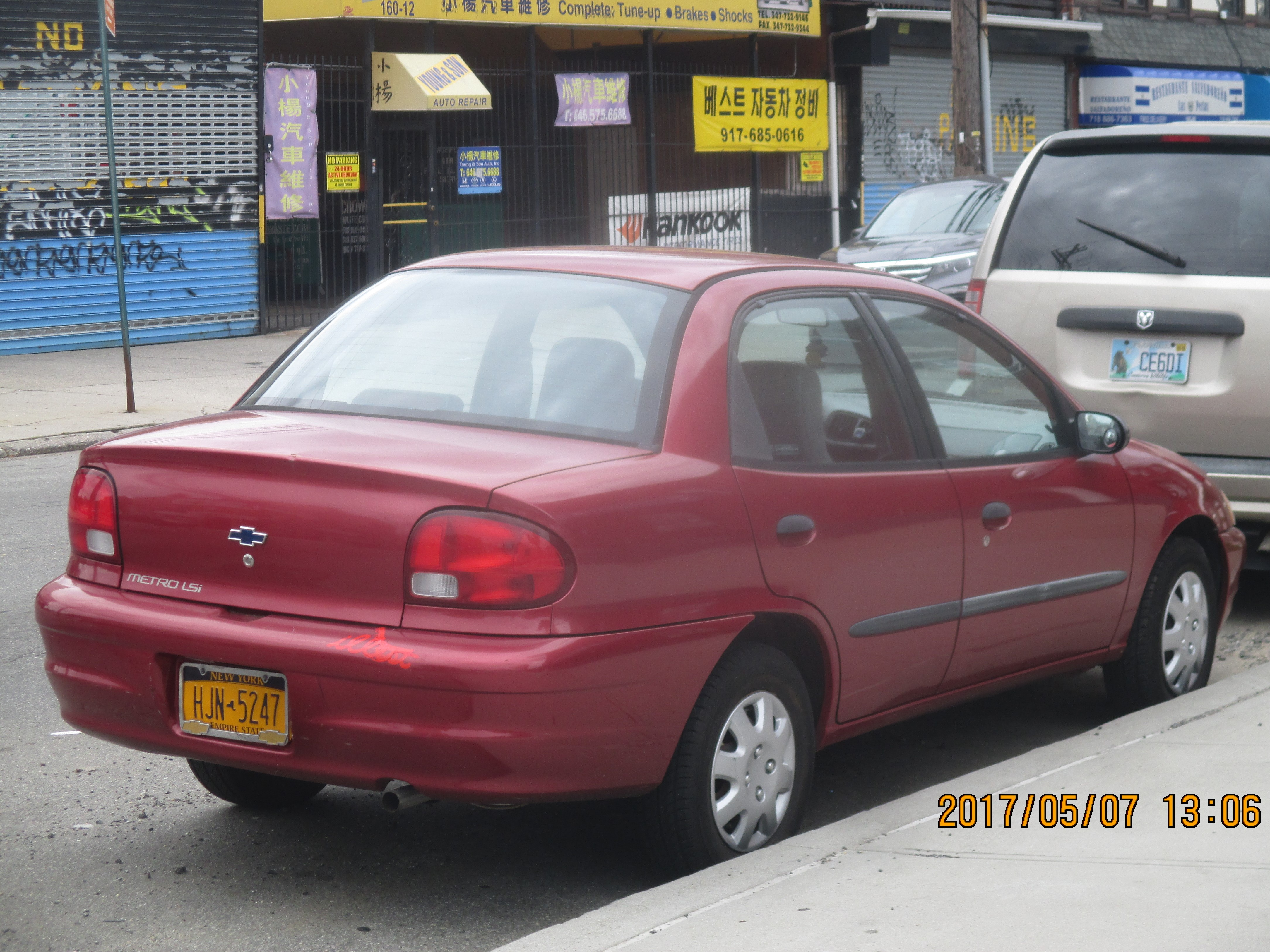 Geo Metro LSi sedan Gen III